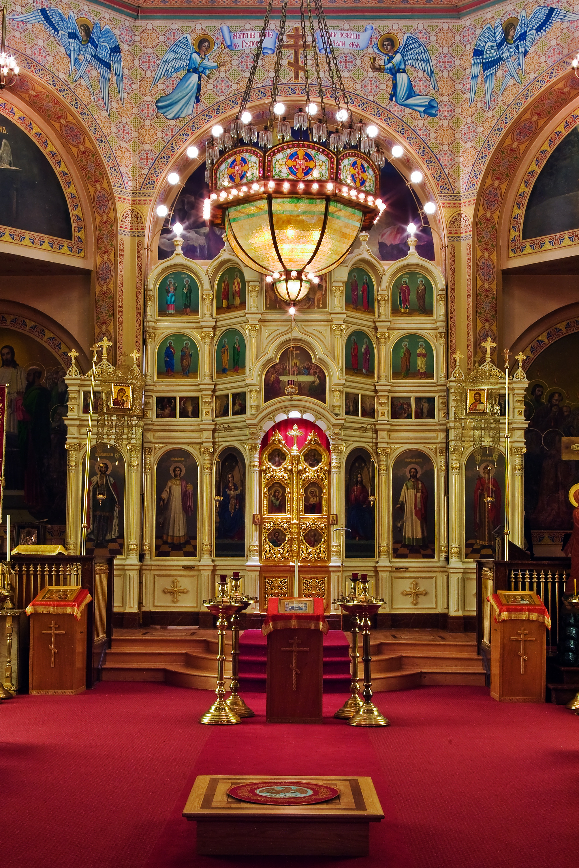 The nave of Holy Trinity Orthodox Cathedral, the Cathedral Church of the Diocese of Chicago and the Midwest, Orthodox Church in America, Chicago, Illinois looking east toward the iconostasis. Designed by Louis Sullivan, built 1899–1903.